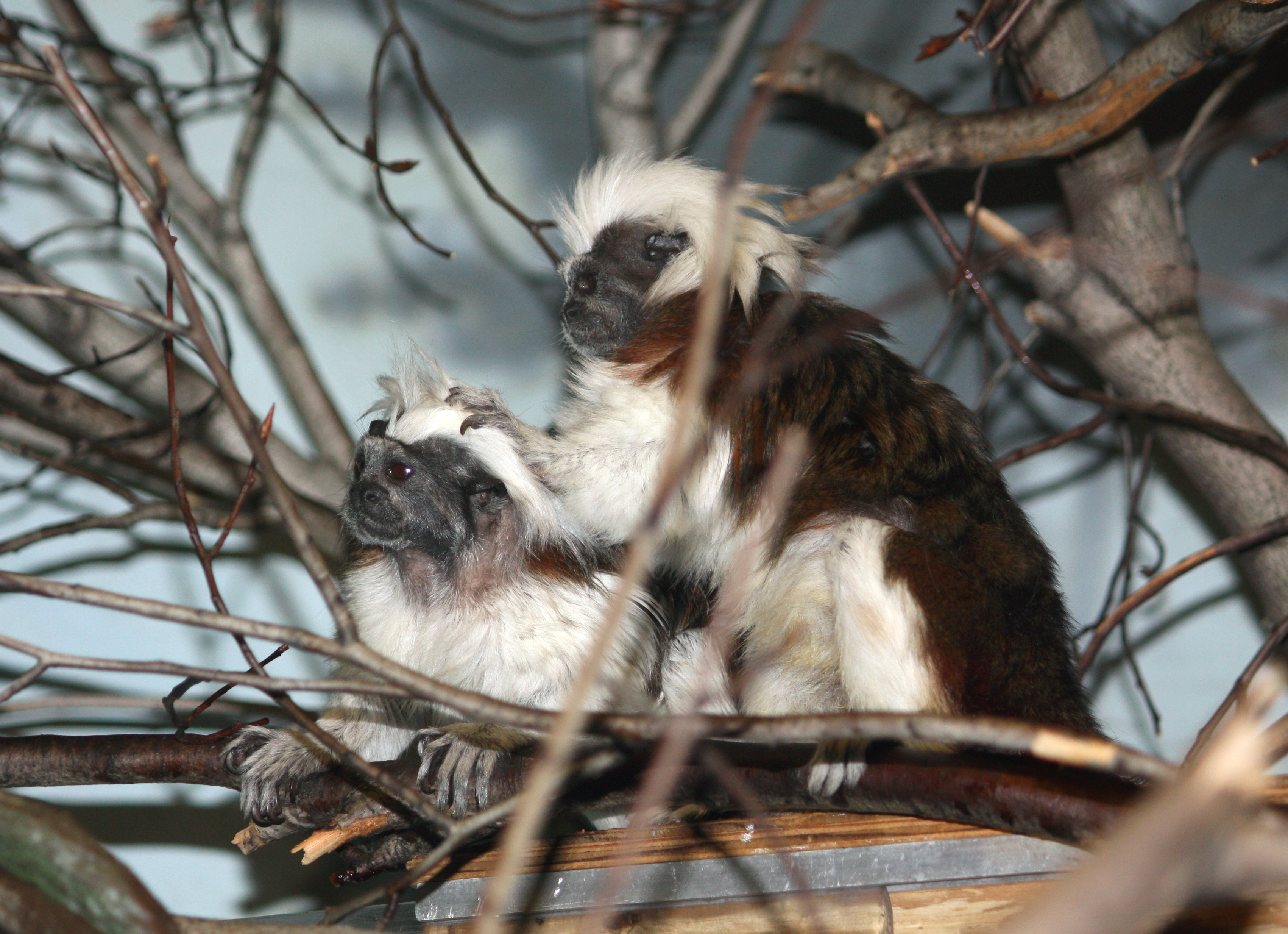 Cotton-top Tamarins (Saguinus oedipus) grooming each other. Bronx Zoo, New York City.